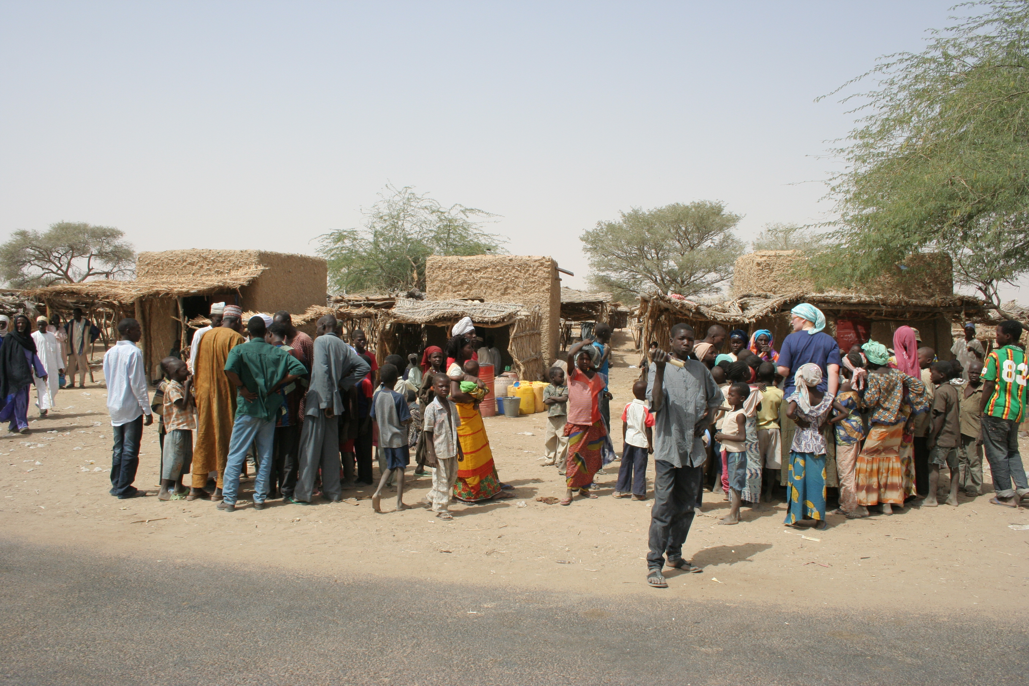 Guézaoua village, municipality of Olléléwa, Zinder region, Niger.